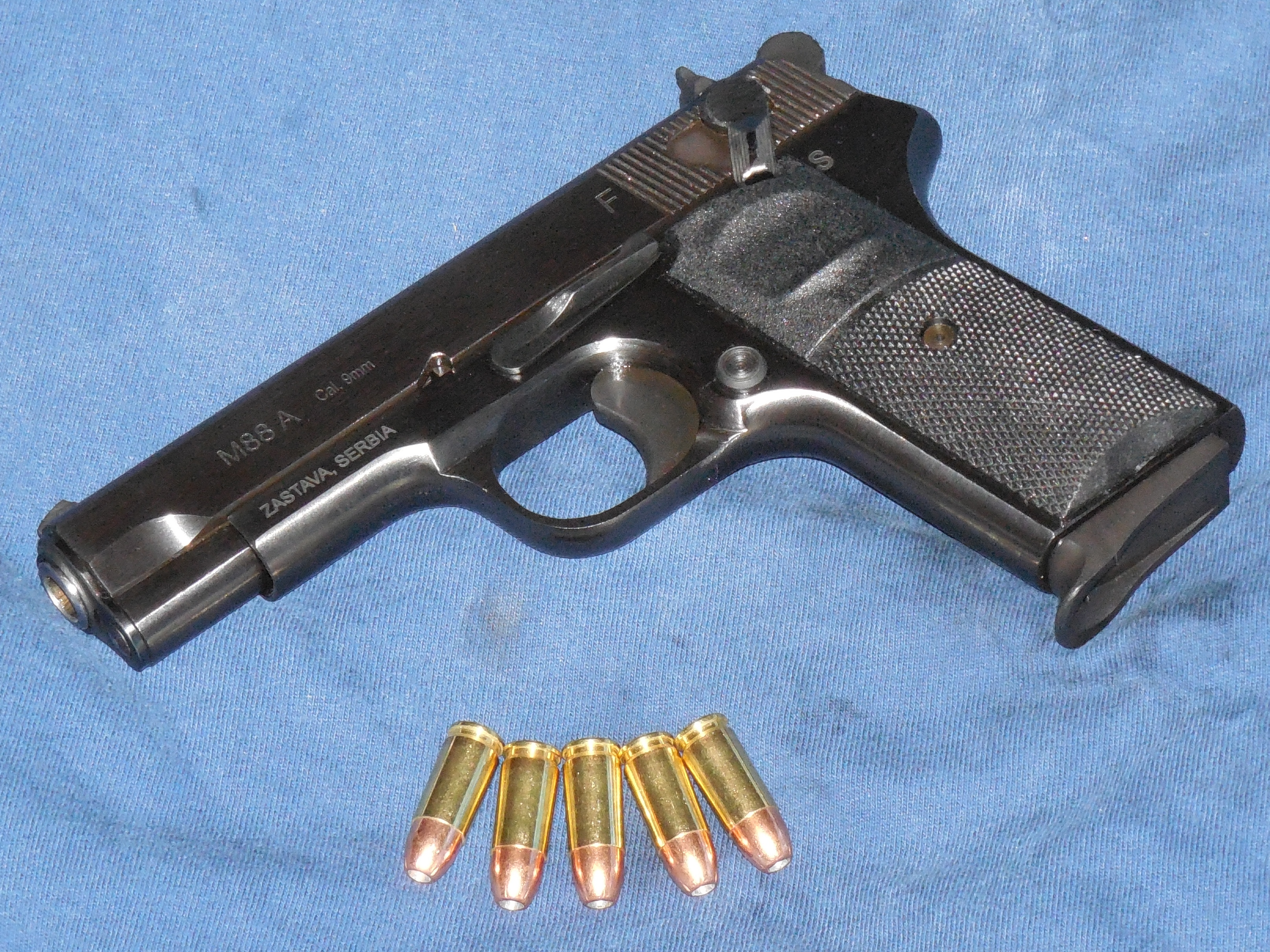 Zastava M88A Tokarev 9mm pistol